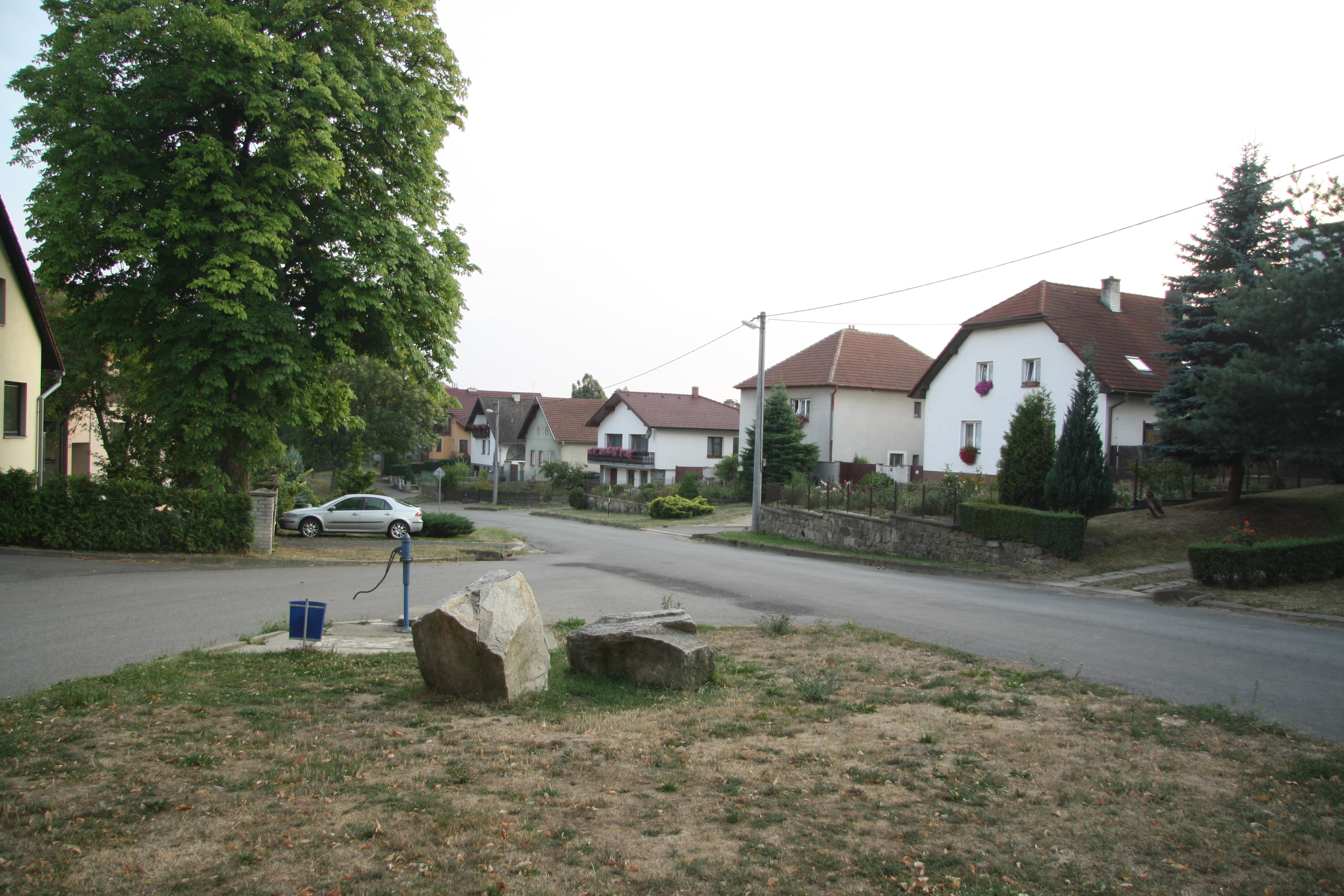 Center of Lavičky with well, Žďár nad Sázavou District.